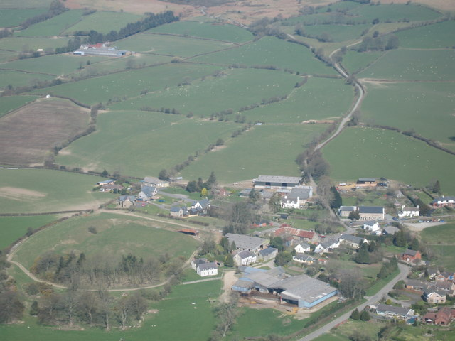 Painscastle Village of Painscastle featuring the Motte and Bailey castle. Also prominent is the Pub, "The Roast Ox ", excellent food and Real ales.